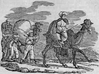 Arabian Nights Images - Unknown This 1883 version gives no credit for the artist, which is a shame because I think the style is really interesting, and rather contemporary-looking considering the age. It was published by J. B. Lippincott & Co.